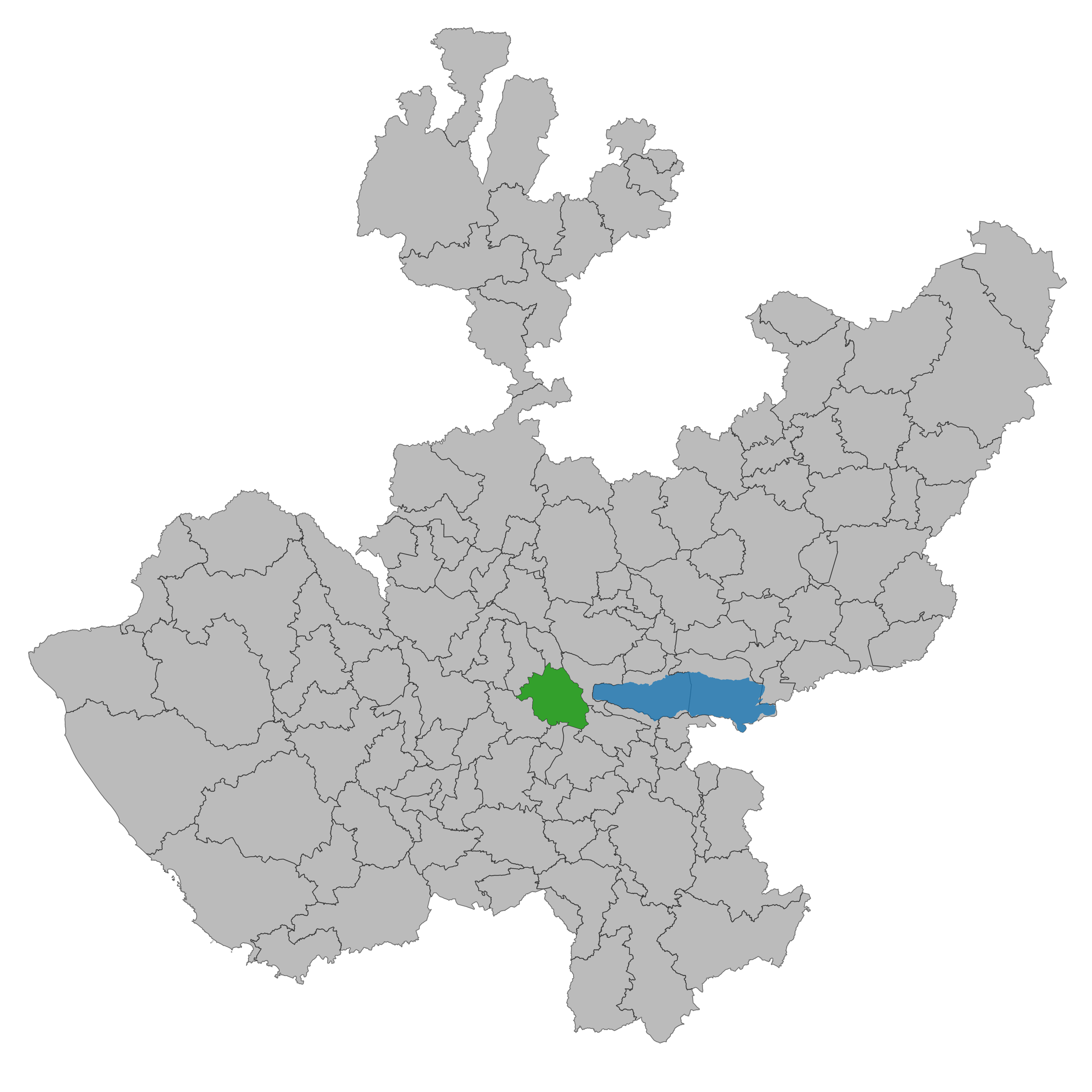 Municipality of Jalisco. Prepared with the software QGIS version 2.8.2 Wien & with information of SCINCE 2010 version 05/2013